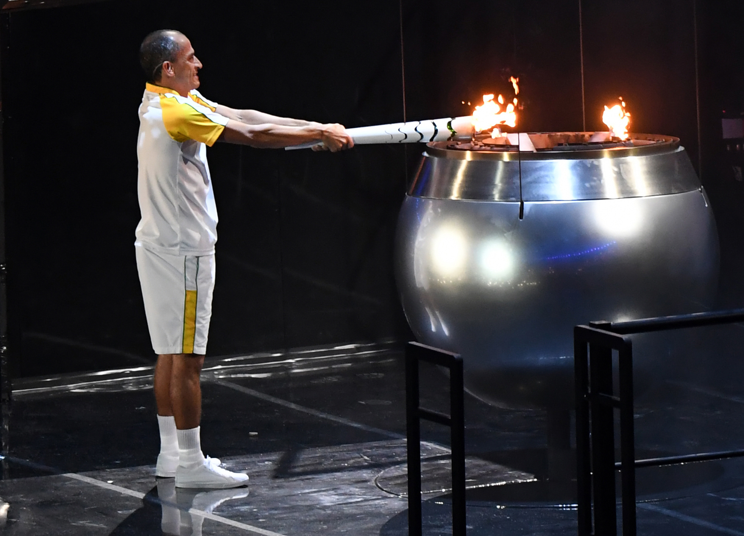 Vanderlei Cordeiro de Lima lights the Olympic cauldron during the Opening Ceremony of the 2016 Rio Olympic Games at Maracana Stadium in Rio de Janeiro, Brazil. U.S. Army photo by Tim Hipps, IMCOM Public Affairs.